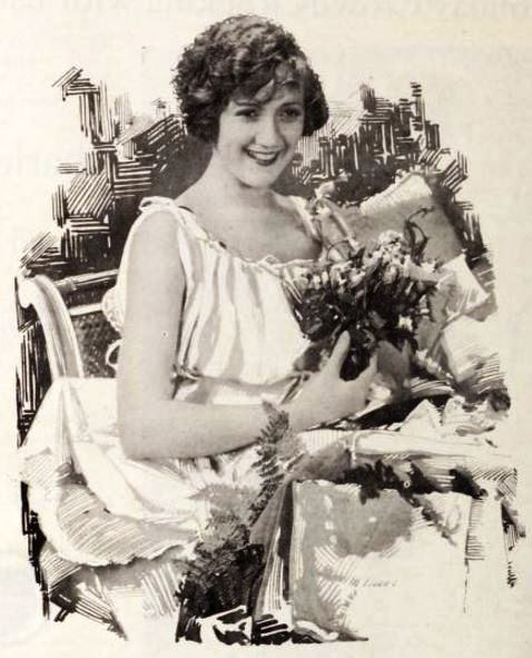 Still from the American comedy romance film Mama's Affair (1921) with Constance Talmadge, on page 28 of the January 15, 1921 Exhibitors Herald.